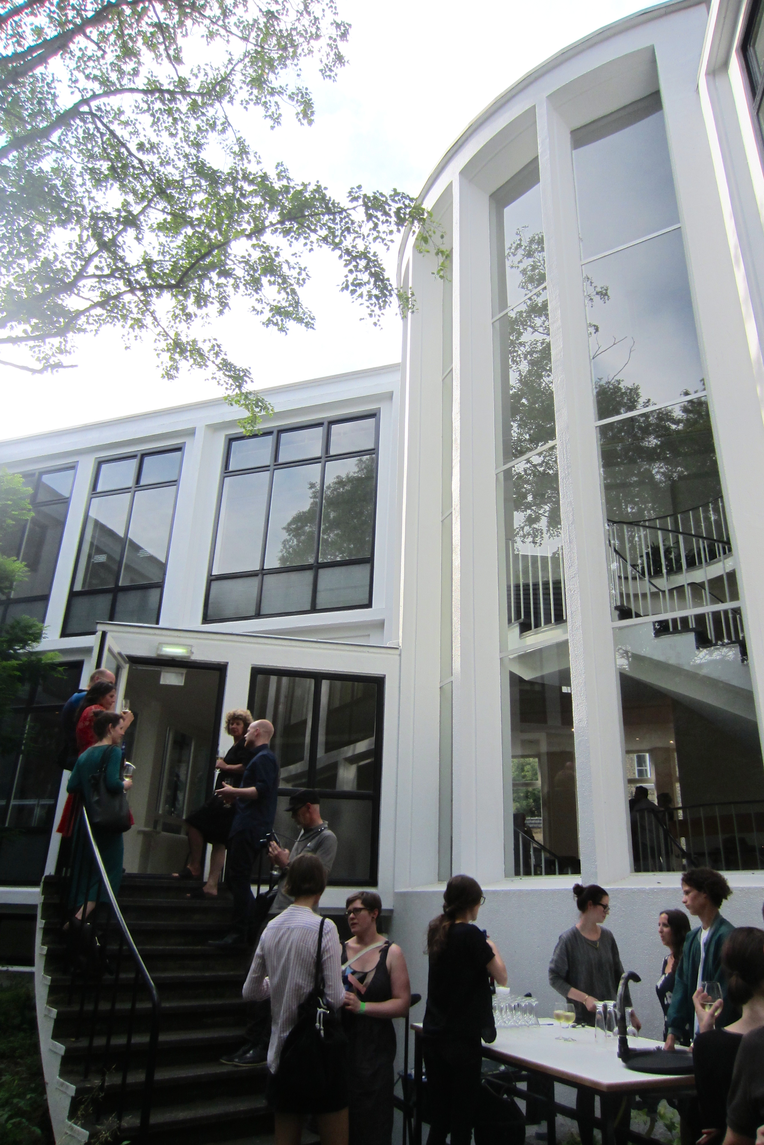 Van Eyck building garden